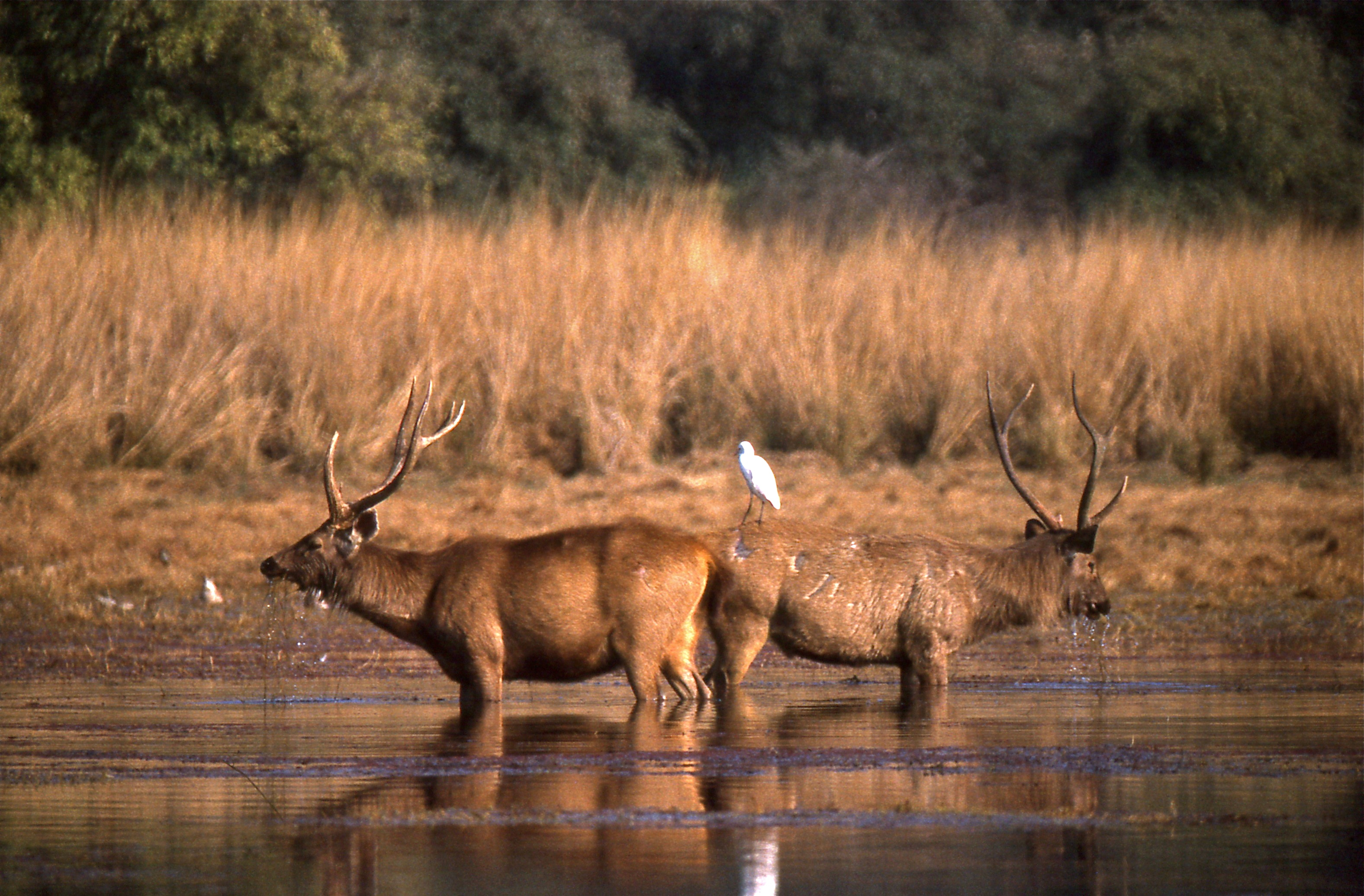 Ranthambore NP, Rajasthan, INDIA Scanned Slide from January 1996